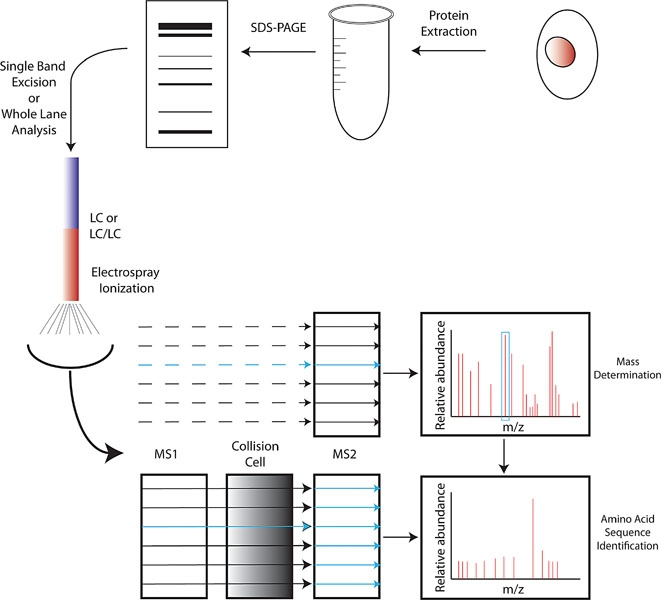 Protein extracts are made from stem cells of any type and first fractionated by SDS-PAGE. Individual bands or the whole lane are then subjected to in situ digestion with trypsin. After trypsin digestion, the product is subjected to either single-dimensional (LC) or multi-dimensional (LC/LC) liquid chromatography for further separation of the mixture. Elute from LC is then ionized by electrospray ionization, and each elute peak first passes through an MS (typically MS2) for mass determination. Each peak is then separated in MS1 and passes into a collision chamber where it is further fragmented and subsequently analyzed in MS2, which aids in peptide sequence determination.